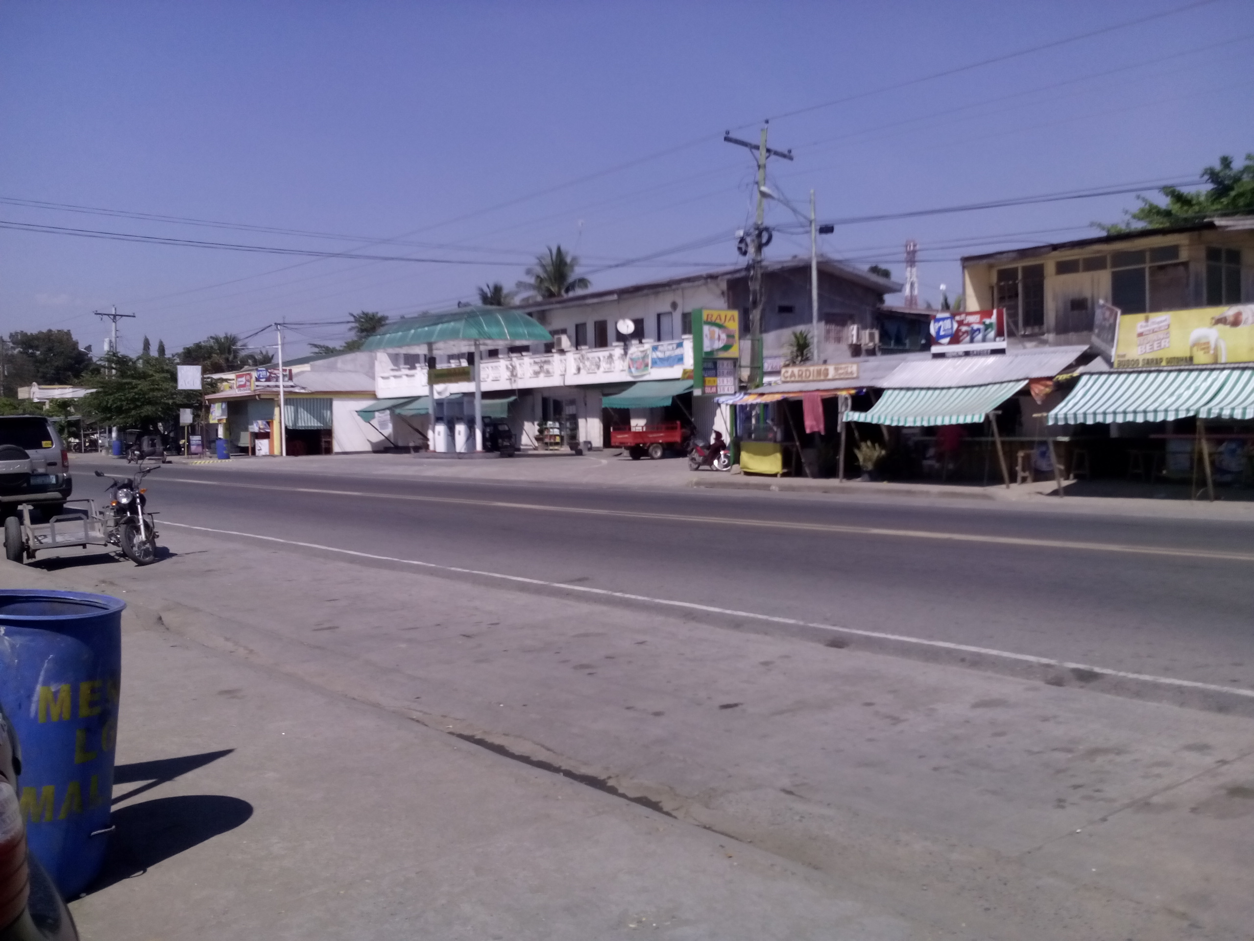 a picture which i took myself of the town proper of Mallig, Isabela, Philippines